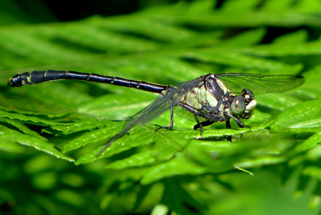 Grappletail (Octogomphus specularis), Hood Mountain Regional Park